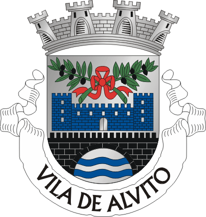 Crest of Alvito municipality, Portugal